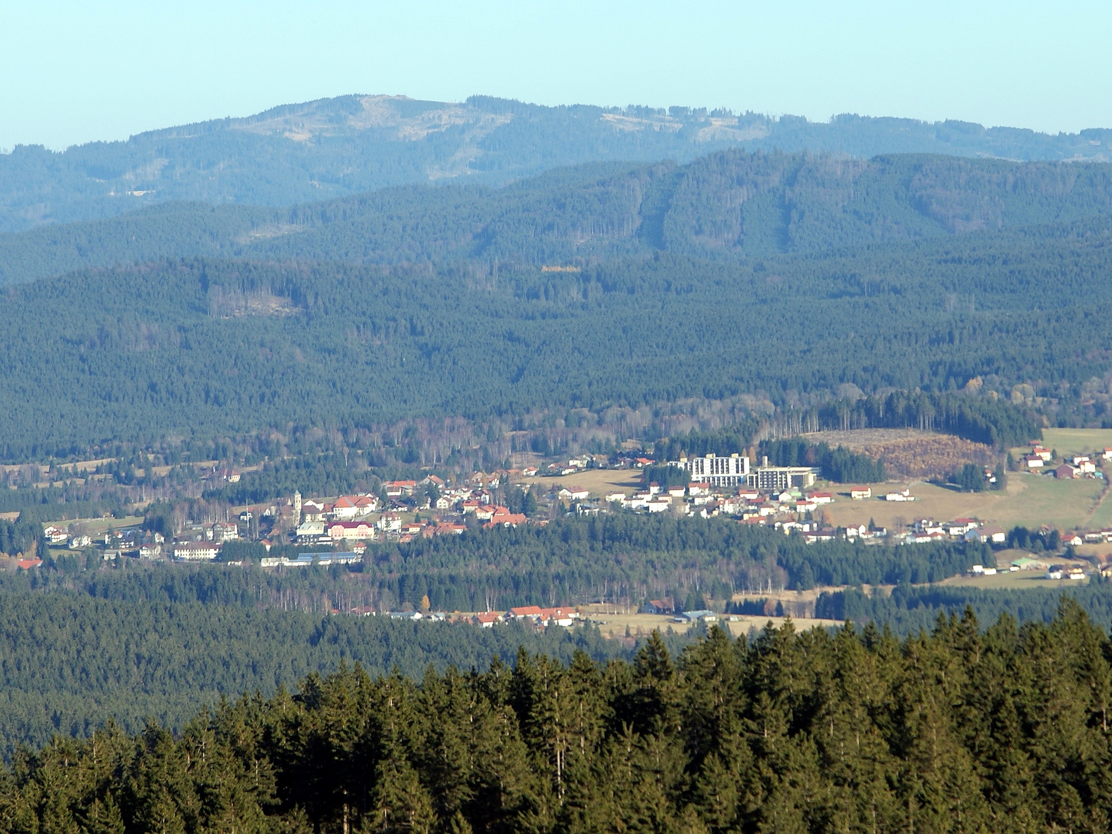 Haidmühle, Lower Bavaria